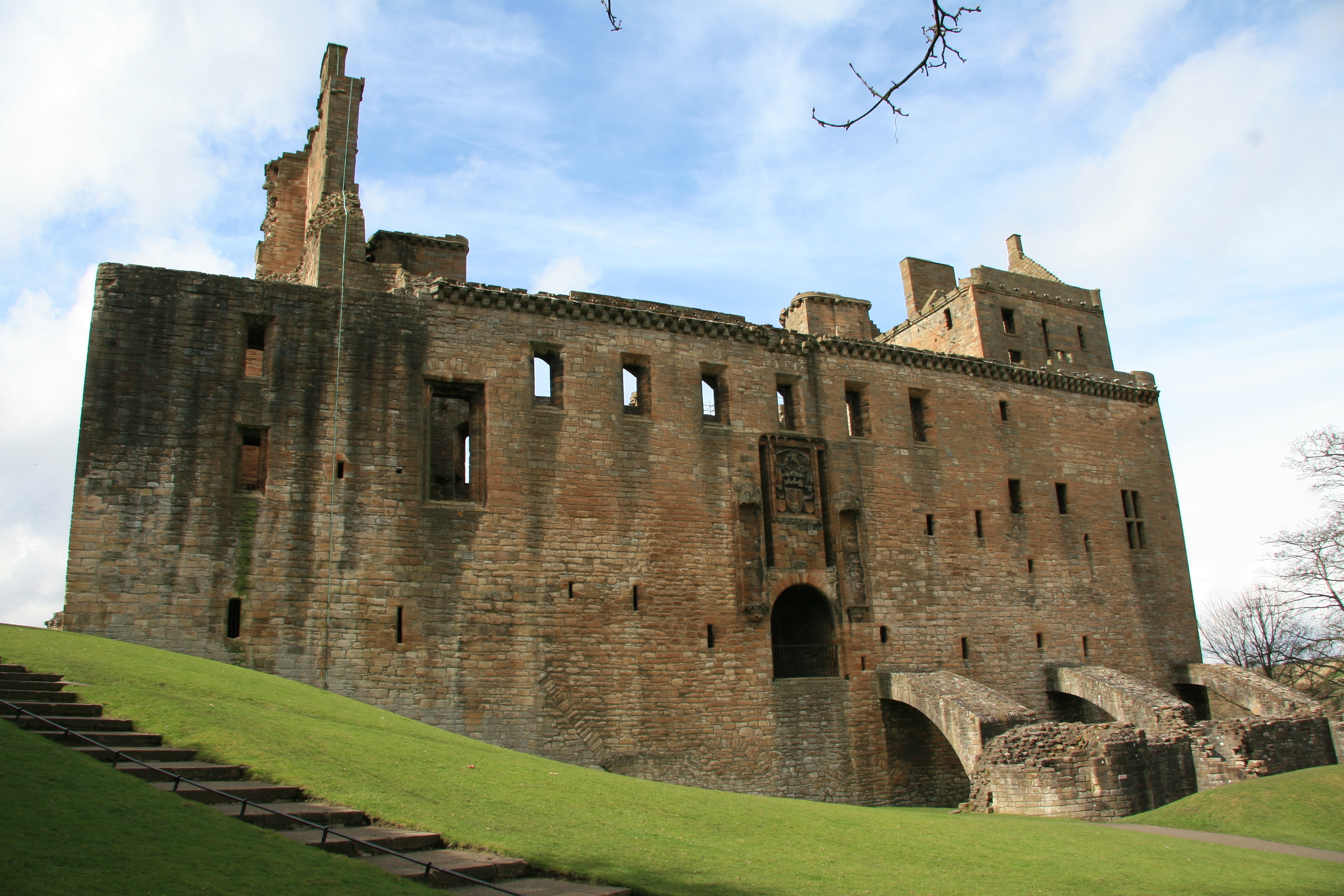 Our first stop in our weekend drive through Scotland was Linlithgow Palace in Linlithgow, Scotland about 15 miles west of Edinburgh. Mary Queen of Scots was born at the Palace in December 1542